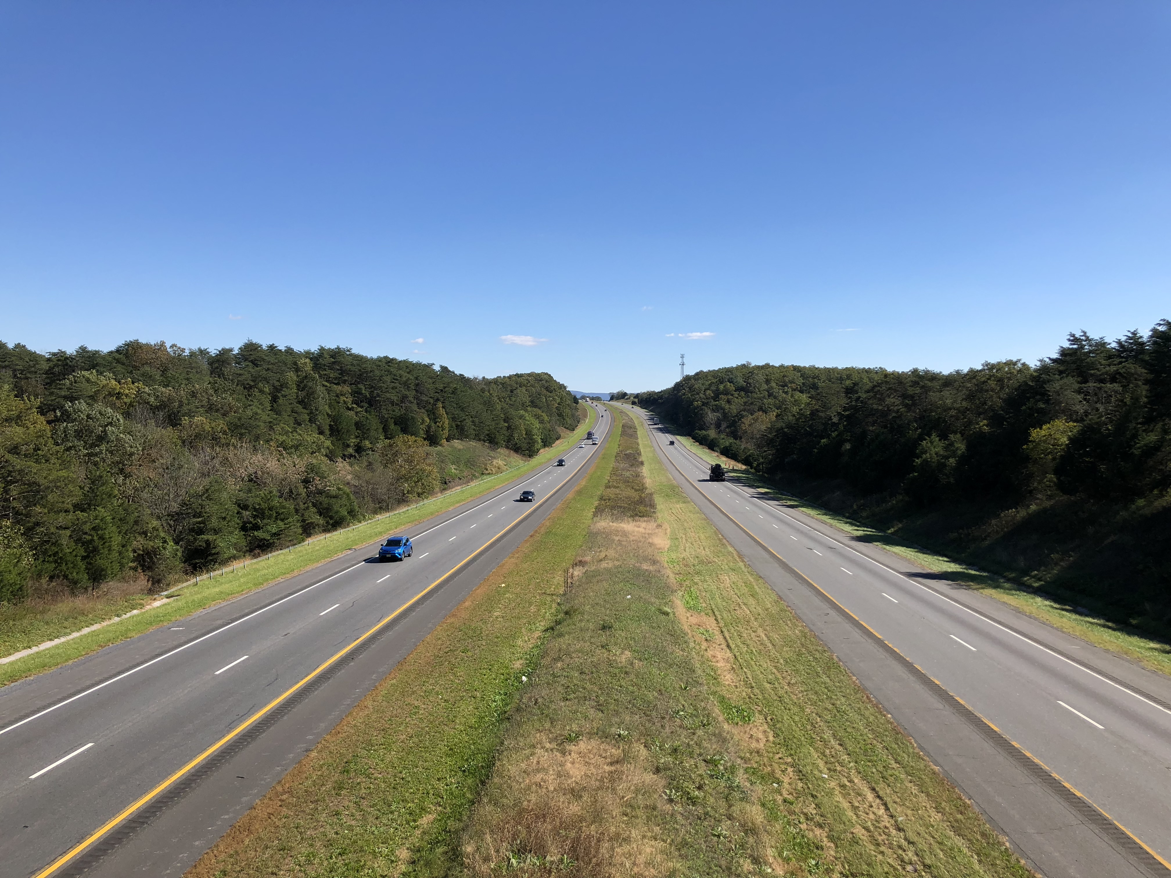 View east along Interstate 66 from the overpass for Sulphur Springs Road (Virginia State Route 842) in Reliance, Warren County, Virginia